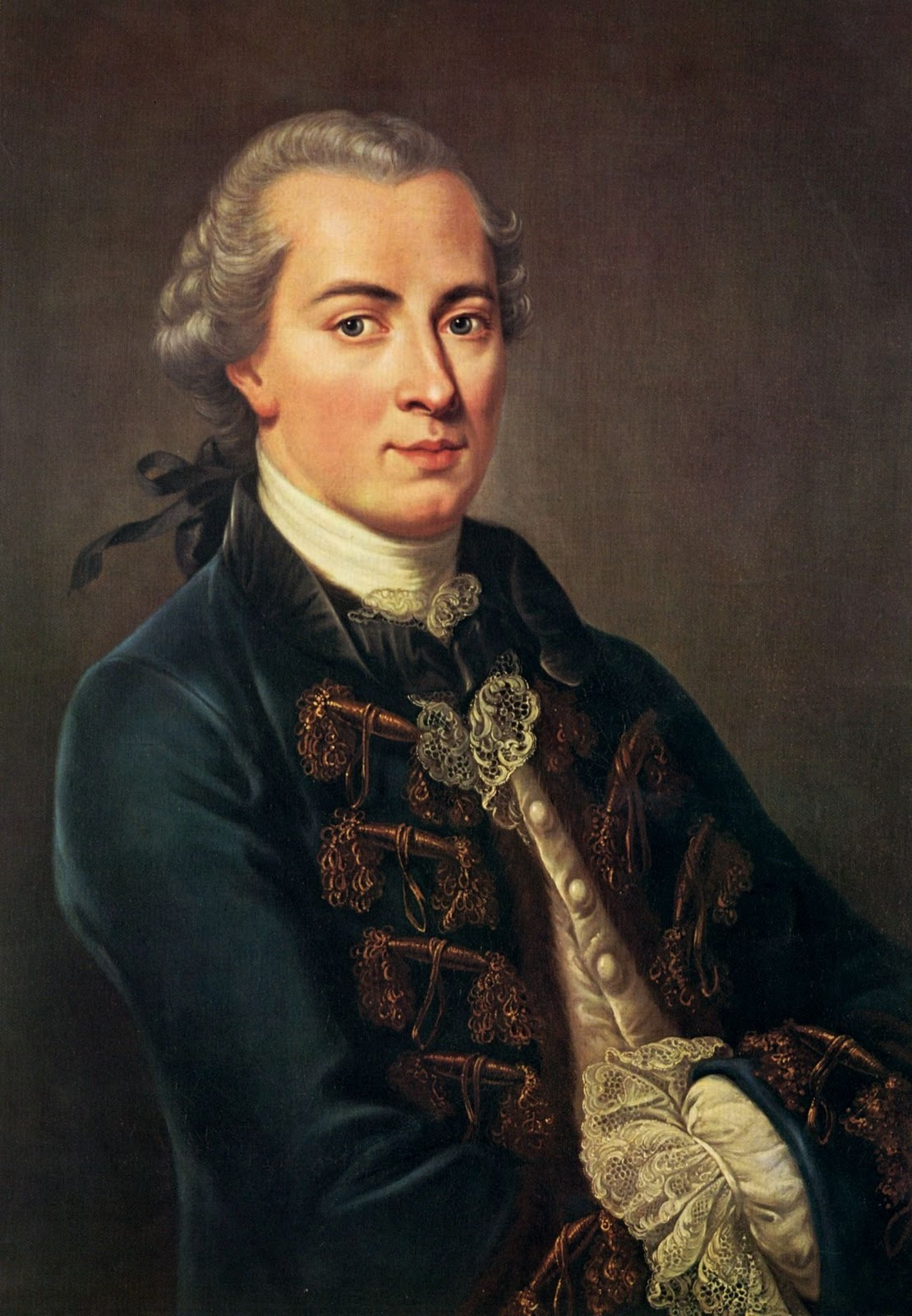 Portrait of the German philosopher Friedrich Heinrich Jacobi (1743-1819), erroneously identified as portrait of Immanuel Kant (1724-1804).